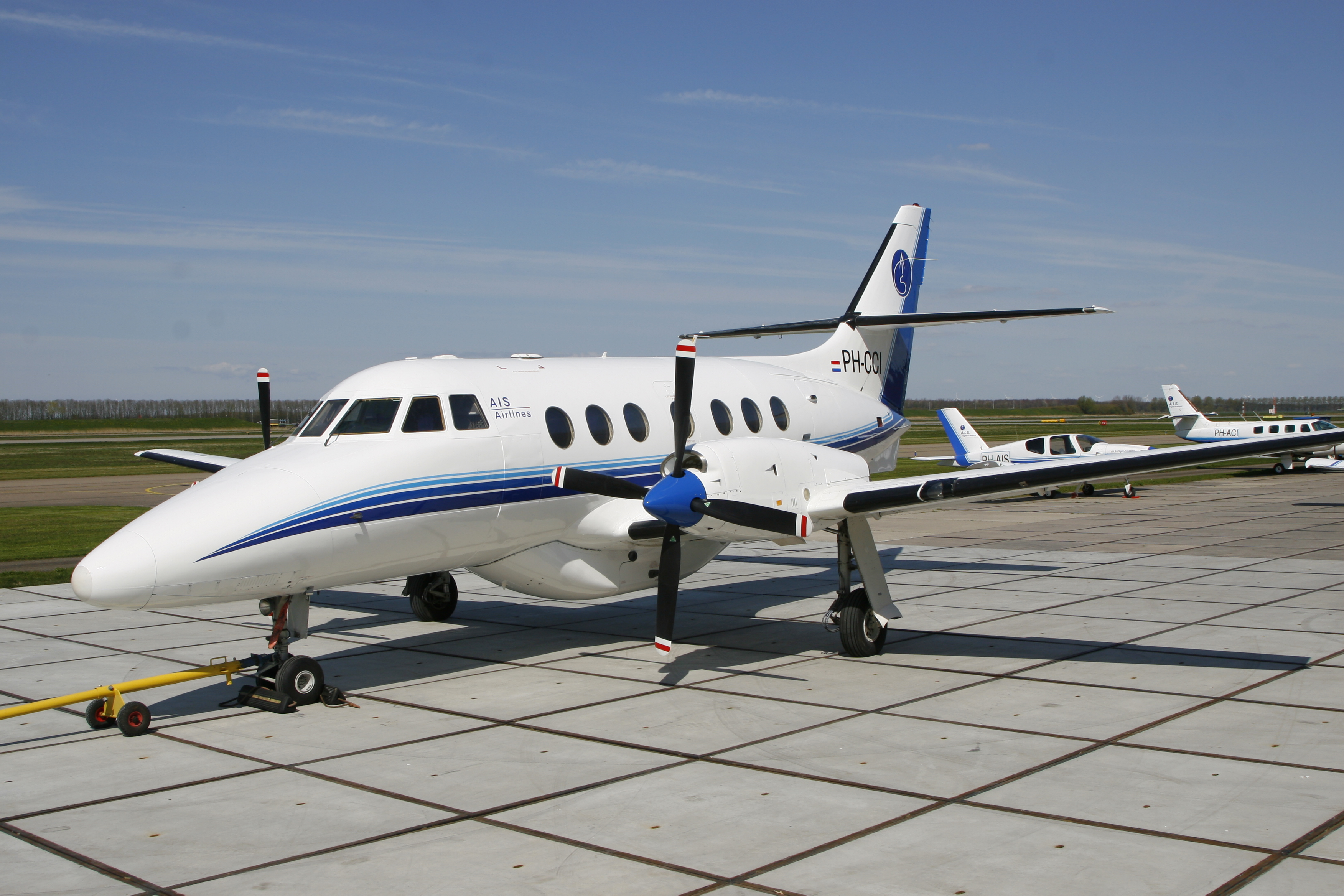 Jetstream AIS